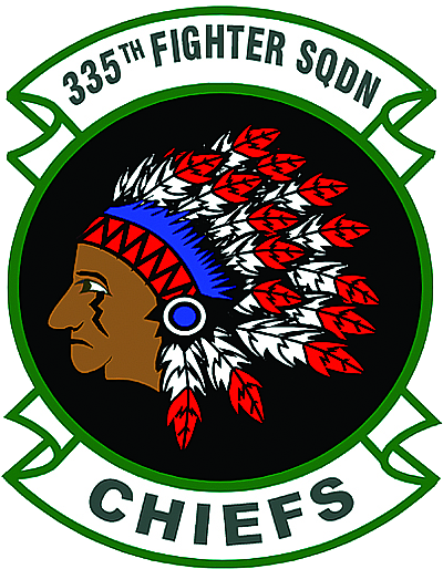 Emblem of the USAF 335th Fighter Squadron